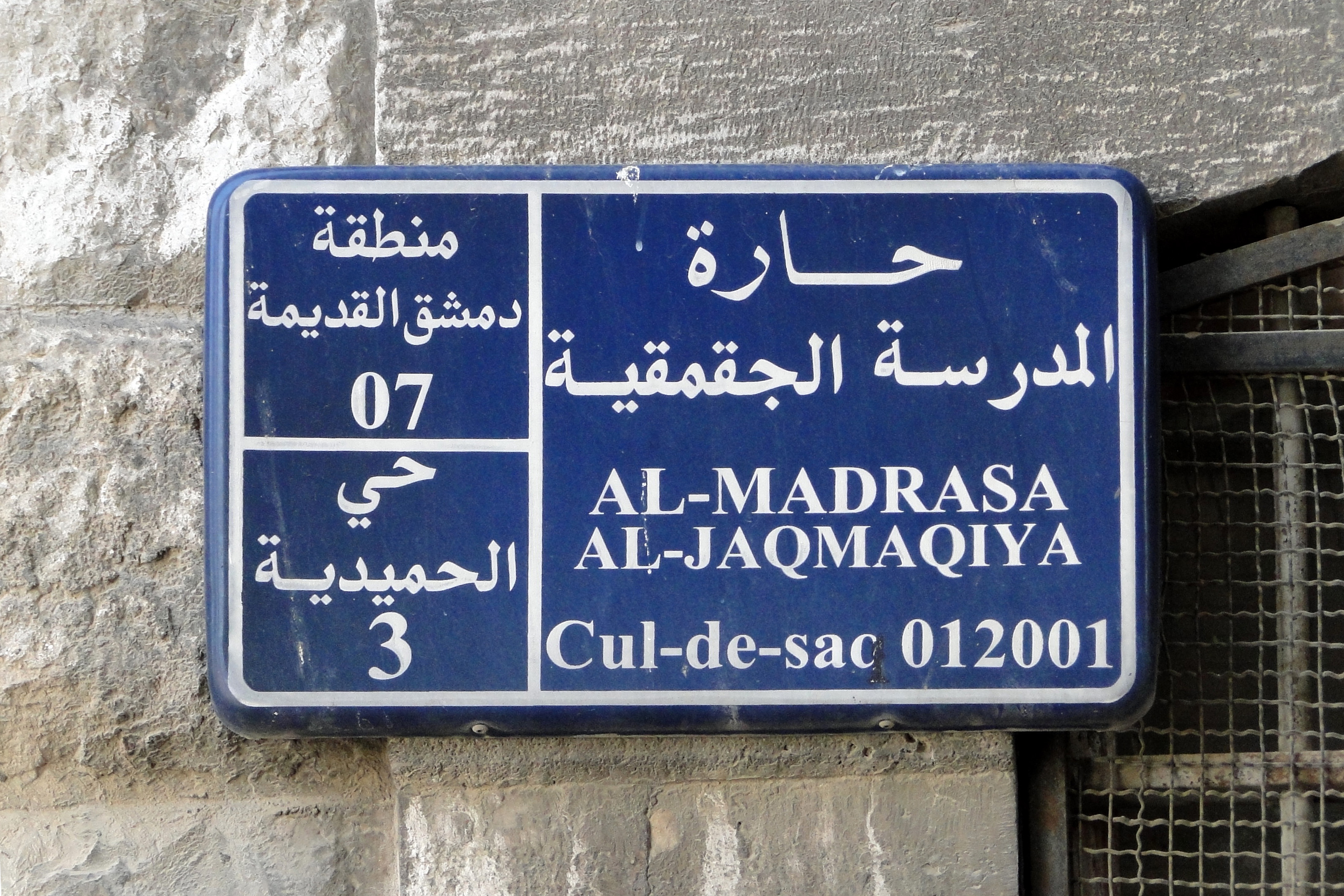 Street sign near the Umayyad Mosque, Damascus, Syria